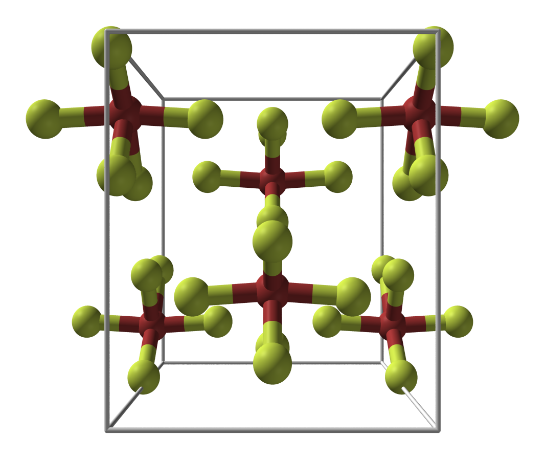 Ball-and-stick model of the unit cell of bromine pentafluoride, BrF5. Structural data from J. Chem. Phys. 1957, 27, 982-983.